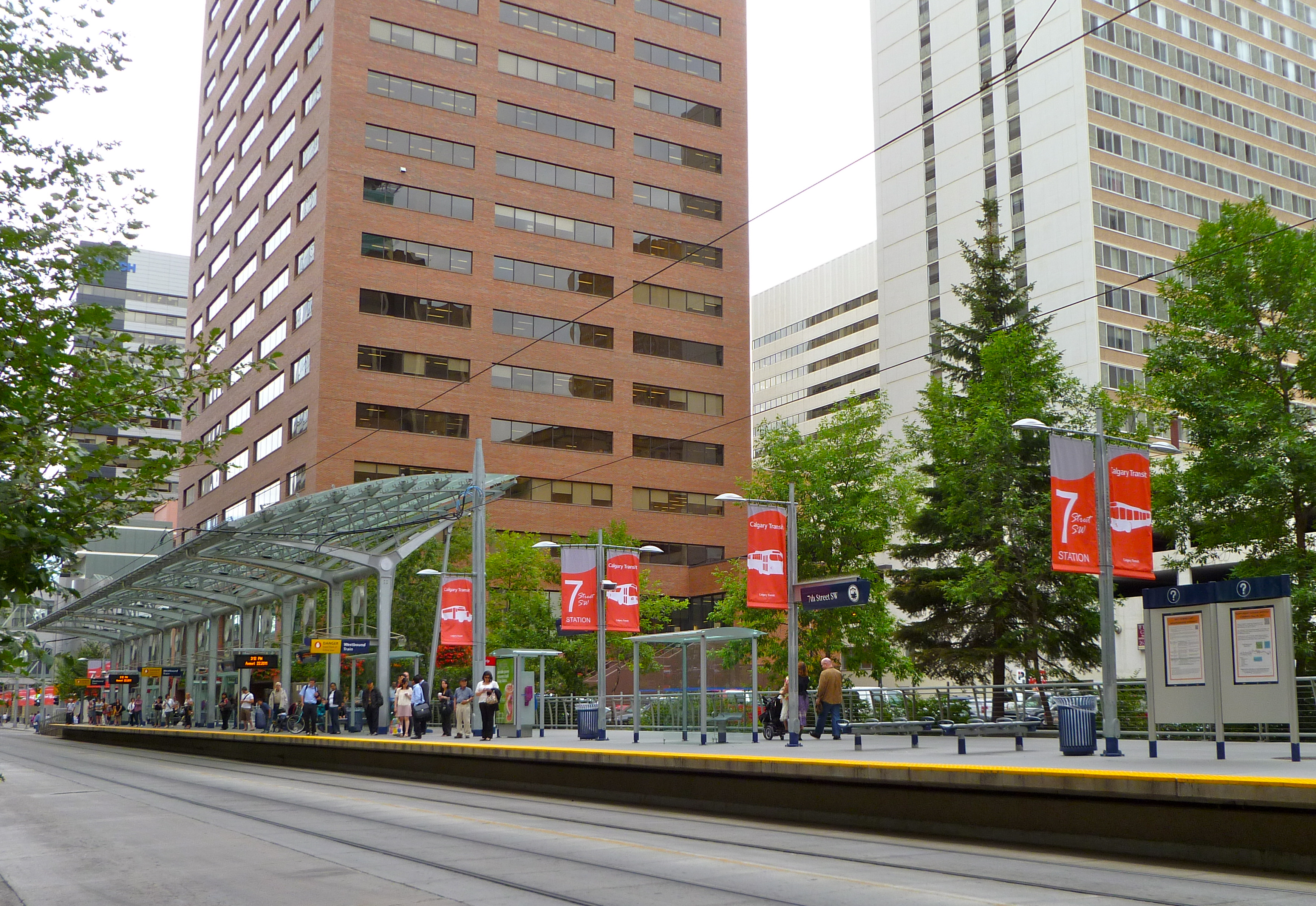 C-train station Downtown core, Calgary